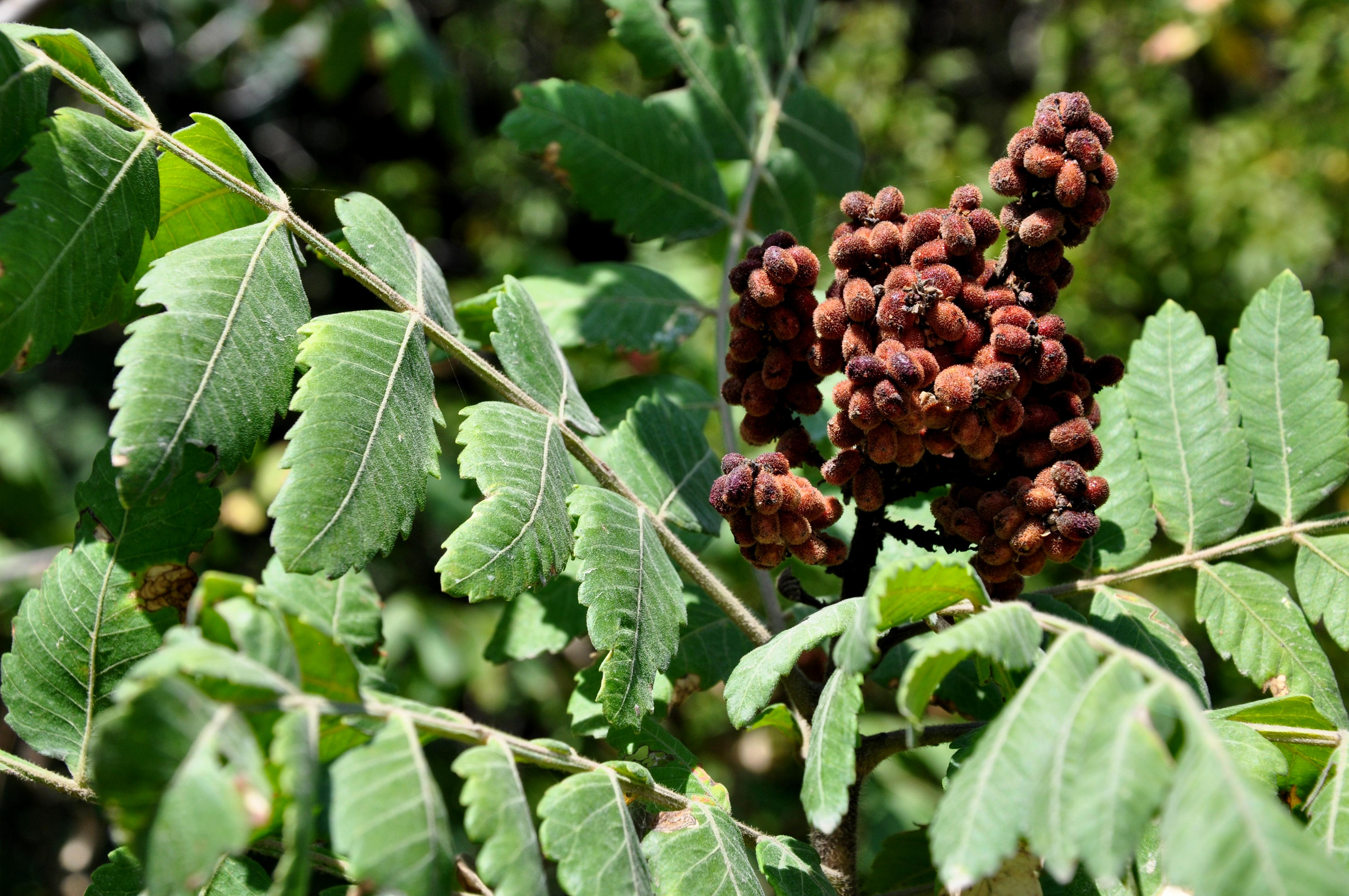 Taken in Shio-mgvime